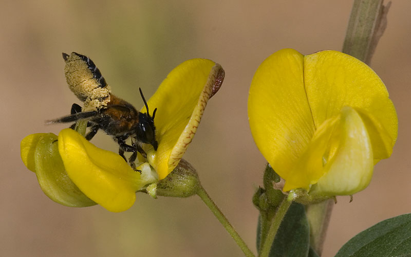 Shot this bee on the outskirts of Bangalore city, India, near a rose garden.